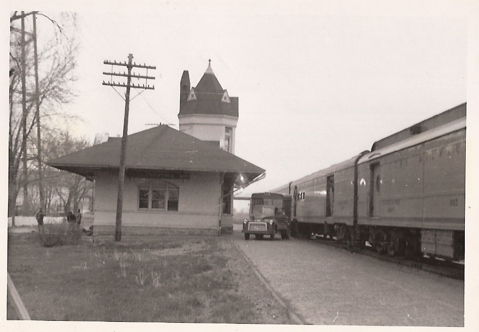 One of the Milwaukee Railroad's stops. Chillicothe, Missouri. SW Limited Number 26 from Kansas City, Mo to Chicago, Illinois...James E. Huffstutter, Conductor.